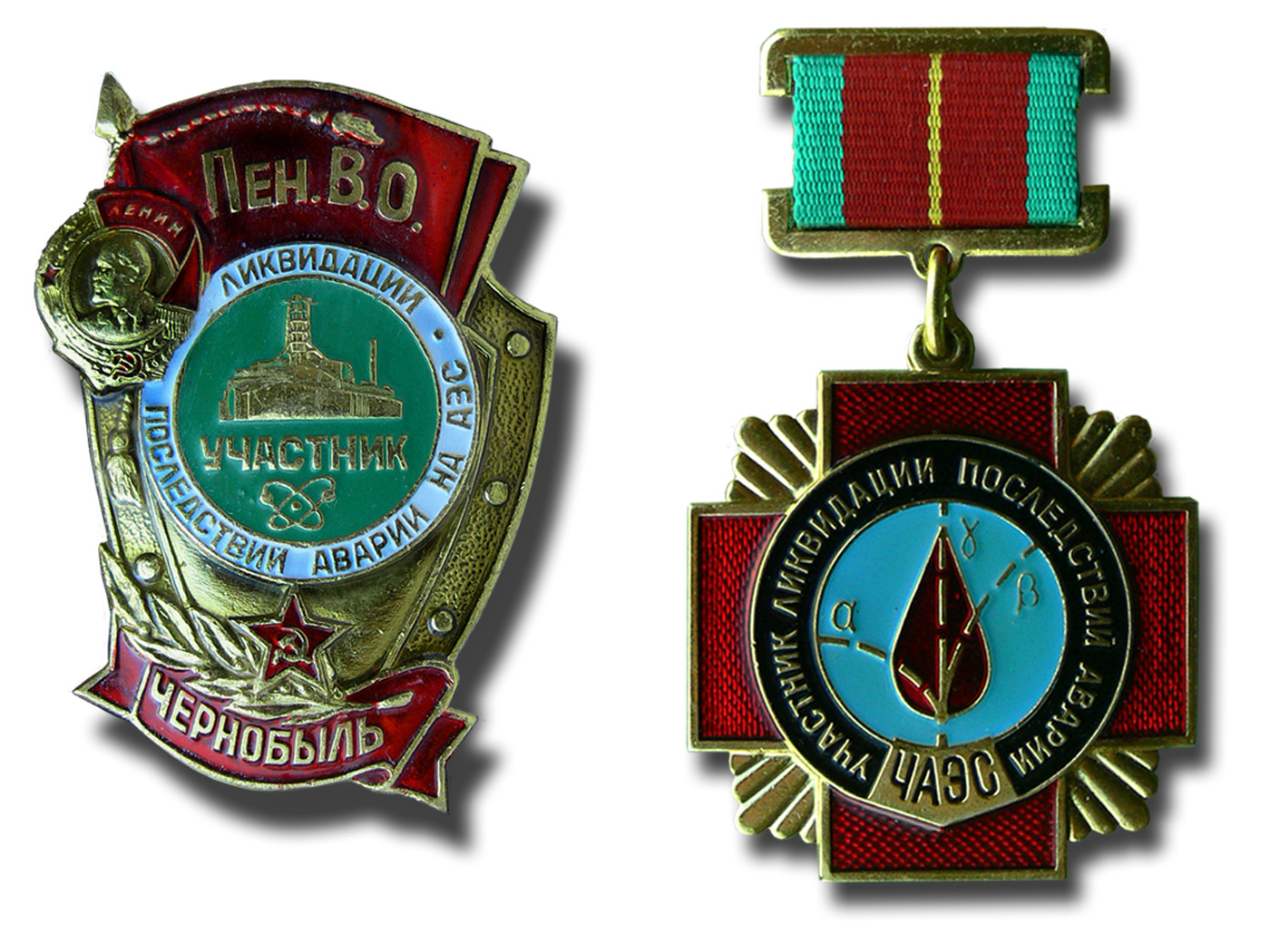 Since the 90s, in Ukranian, Russian, and Belarusian markets, one has been able to find these kinds of medals sold by the widows of liquidators or their children. Numerous liquidators have died within 10 to 20 years after the catastrophe. A large bronze commemorative medal was also produced, featuring a pregnant woman on one side, and a Chernobyl clock on the other. In this photo, the medal on the left shows an effigy of Lenin with a central "lenin" in bas relief. This is the less common of the two, reserved for the first liquidators or members of the communist party. Photography: F Lamiot and A Villain